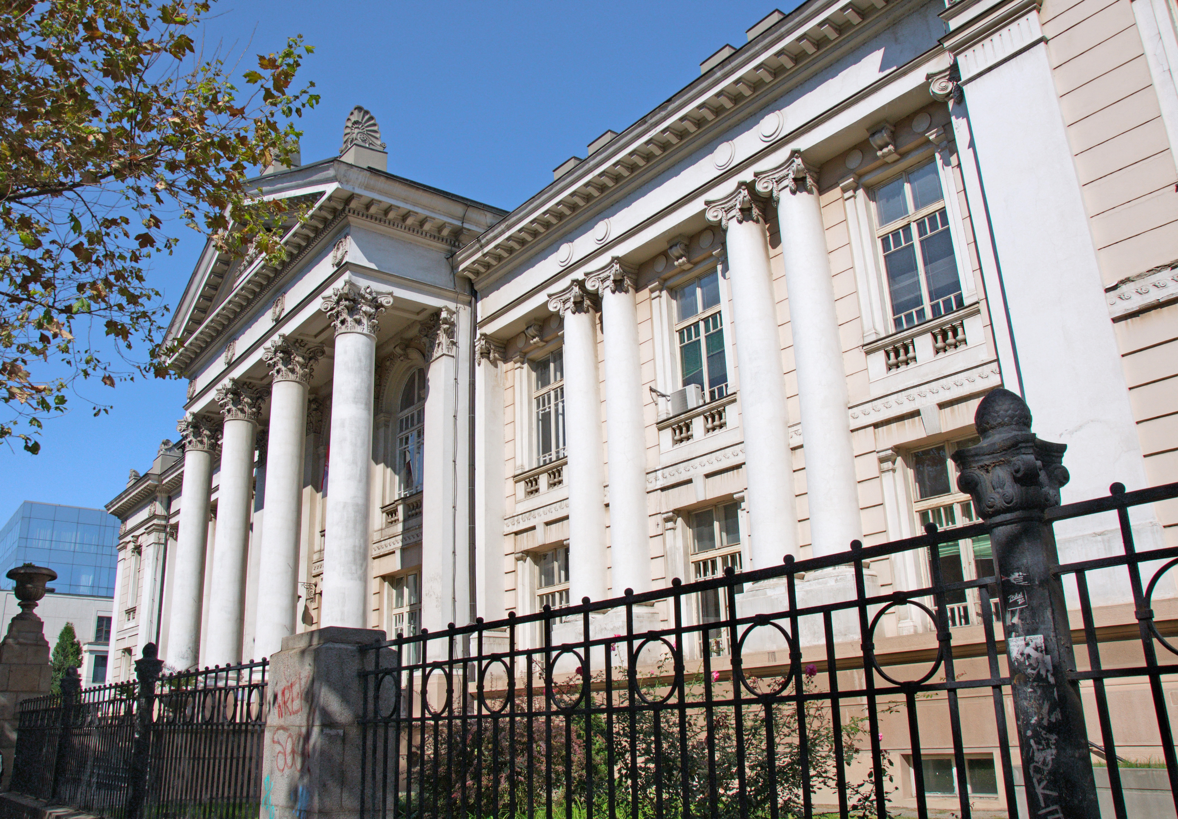 Univerzitetska biblioteka„Svetozar Marković“ je naučna biblioteka Univerziteta u Beogradu i nalazi se u zgradi u Bulevaru kralja Aleksandra 71.Na inicijativu našeg poslanika u Vašingtonu, dr Slavka Grujića, Karnegijeva zadužbina, koja je do tada već izgradila čitav niz biblioteka u svetu, prihvatila je da odobri 100.000 dolara kao poklon srpskoj vladi za gradnju i opremanje jedne biblioteke u Beogradu. Profesor dr Slobodan Jovanović, tadašnji rektor Univerziteta, uspeo je ličnim zalaganjem da ta materijalna sredstva uveća državnim kreditima, kako bi se izgradila jedna veća biblioteka, koja bi zadovoljila potrebe Univerziteta. Grad Beograd je poklonio zemljište, a projekat su uradili profesori univerziteta, arhitekti Dragutin Đorđevići Nikola Nestorović. Tako je podignuta prva i tada jedina zgrada u Srbiji, namenski sagrađena za biblioteku.